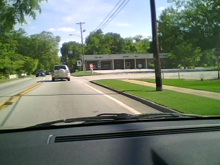 Author: Chris Miller Source: Took picture myself Purpose: To show Georgia State Route 81 south in Oxford, Georgia.